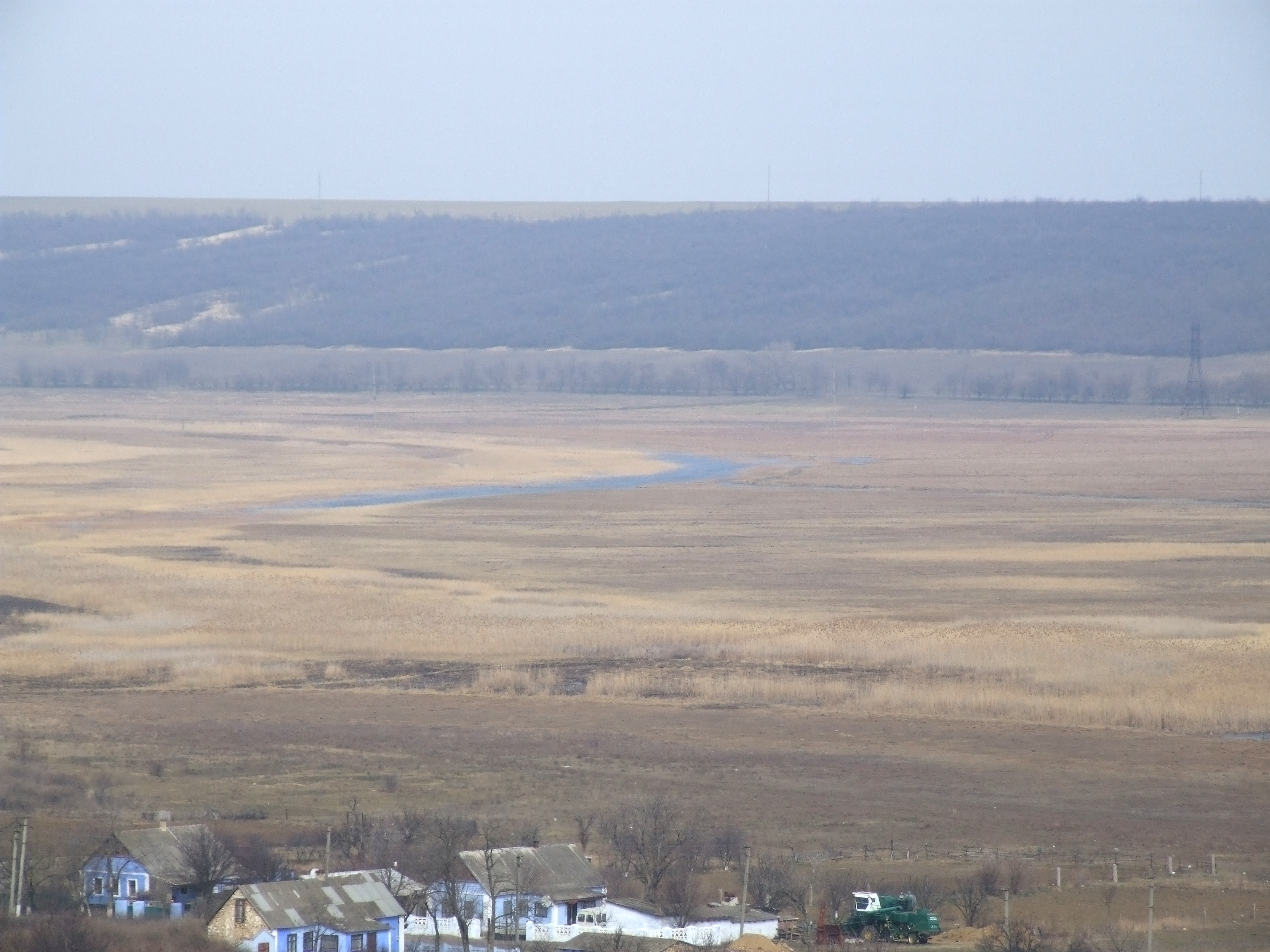 Tiligul river near Zbrozhkivka village, Berezivskyi Raion, Odessa Oblast, Ukrain